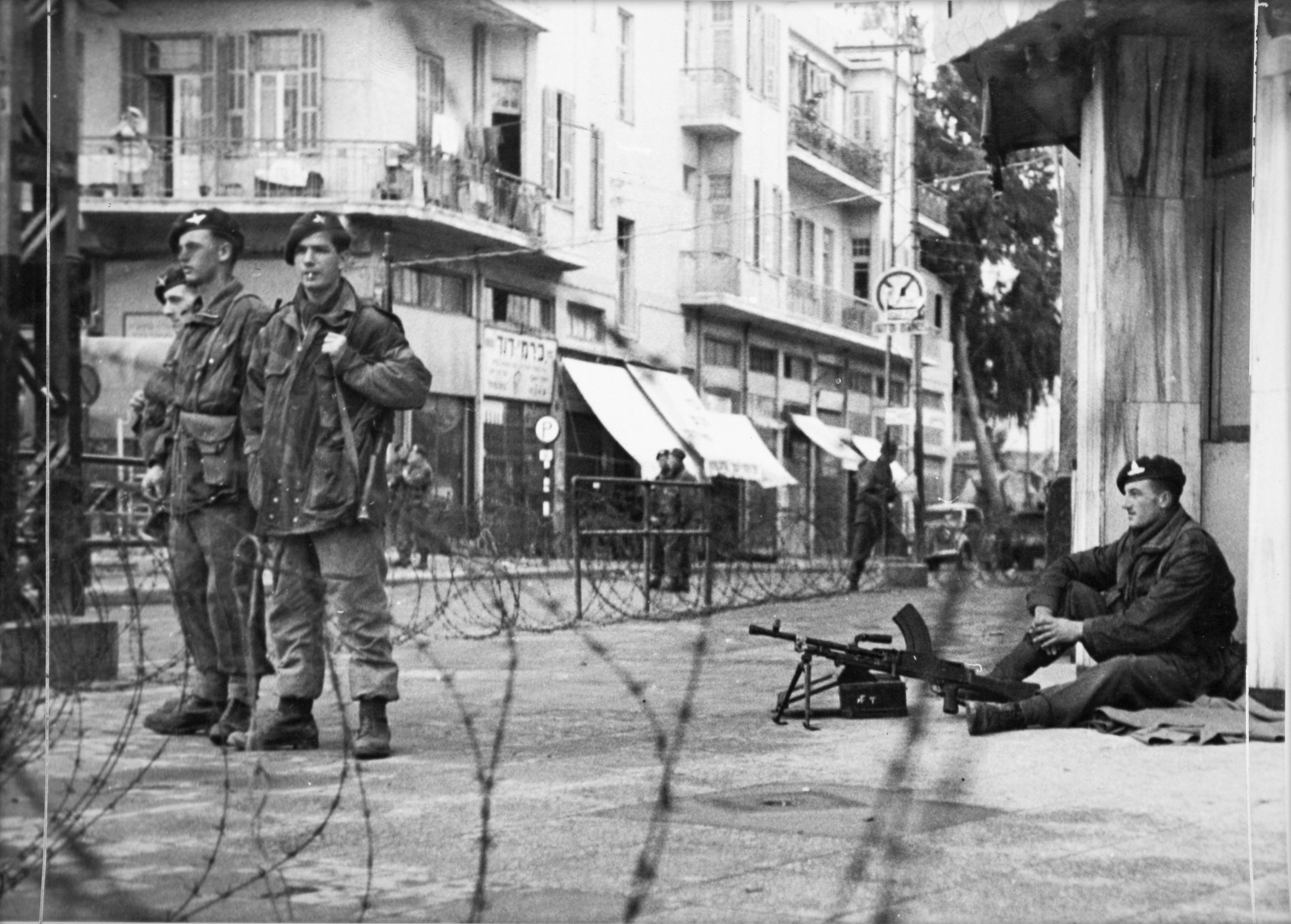 Photographs in the National Library of Israel. British soldiers in Tel Aviv- Curfew